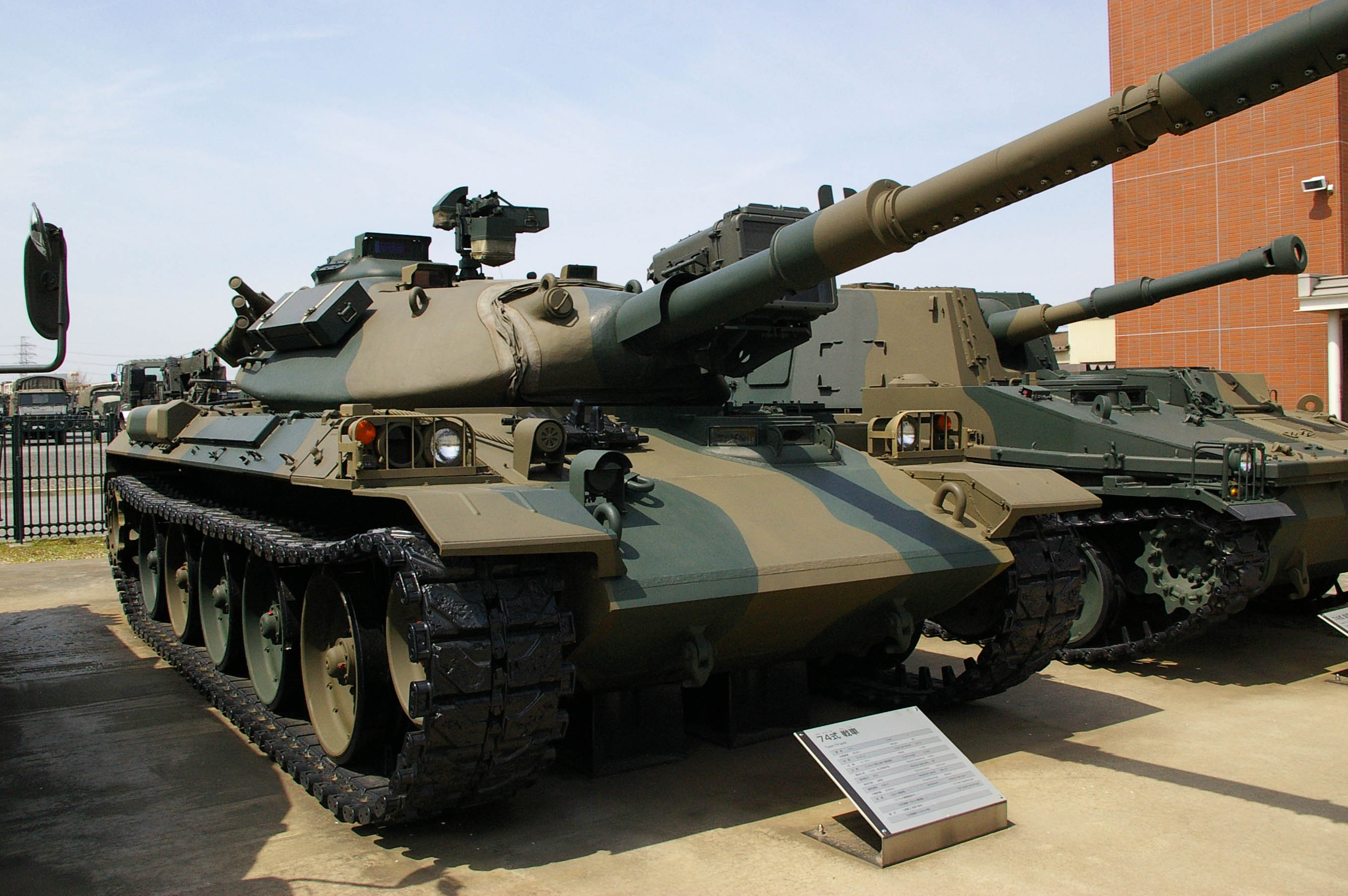 Taken by los688,5-Apr-2008,JGSDF Type74 tank,JGSDF Public Information Center.PD-self. ja:2008年4月5日、投稿者撮影。74式戦車。陸上自衛隊朝霞駐屯地陸上自衛隊広報センター。